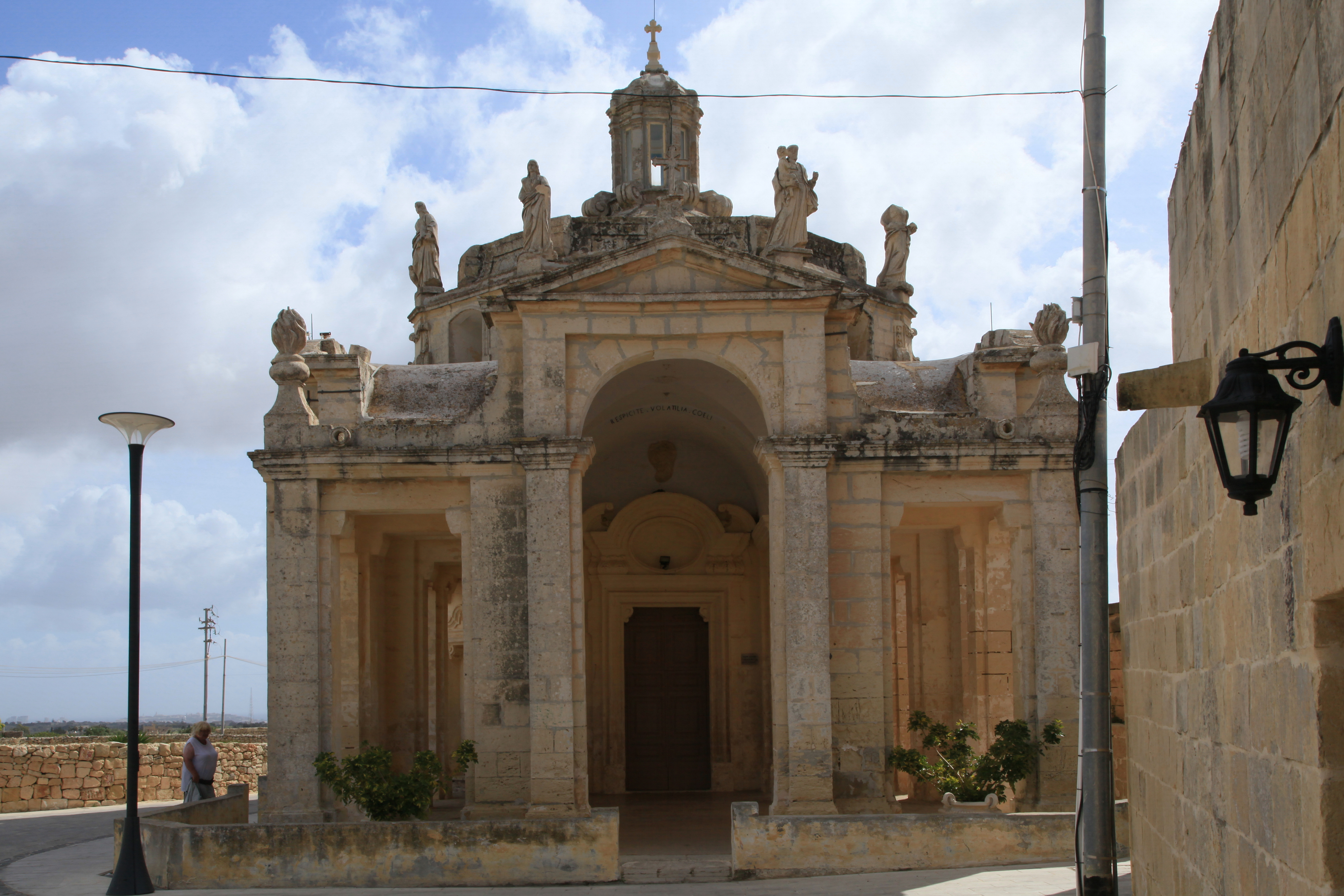 Church of Our Lady of Divine Providence, Trejqa tal-Providenza in Siġġiewi, Malta